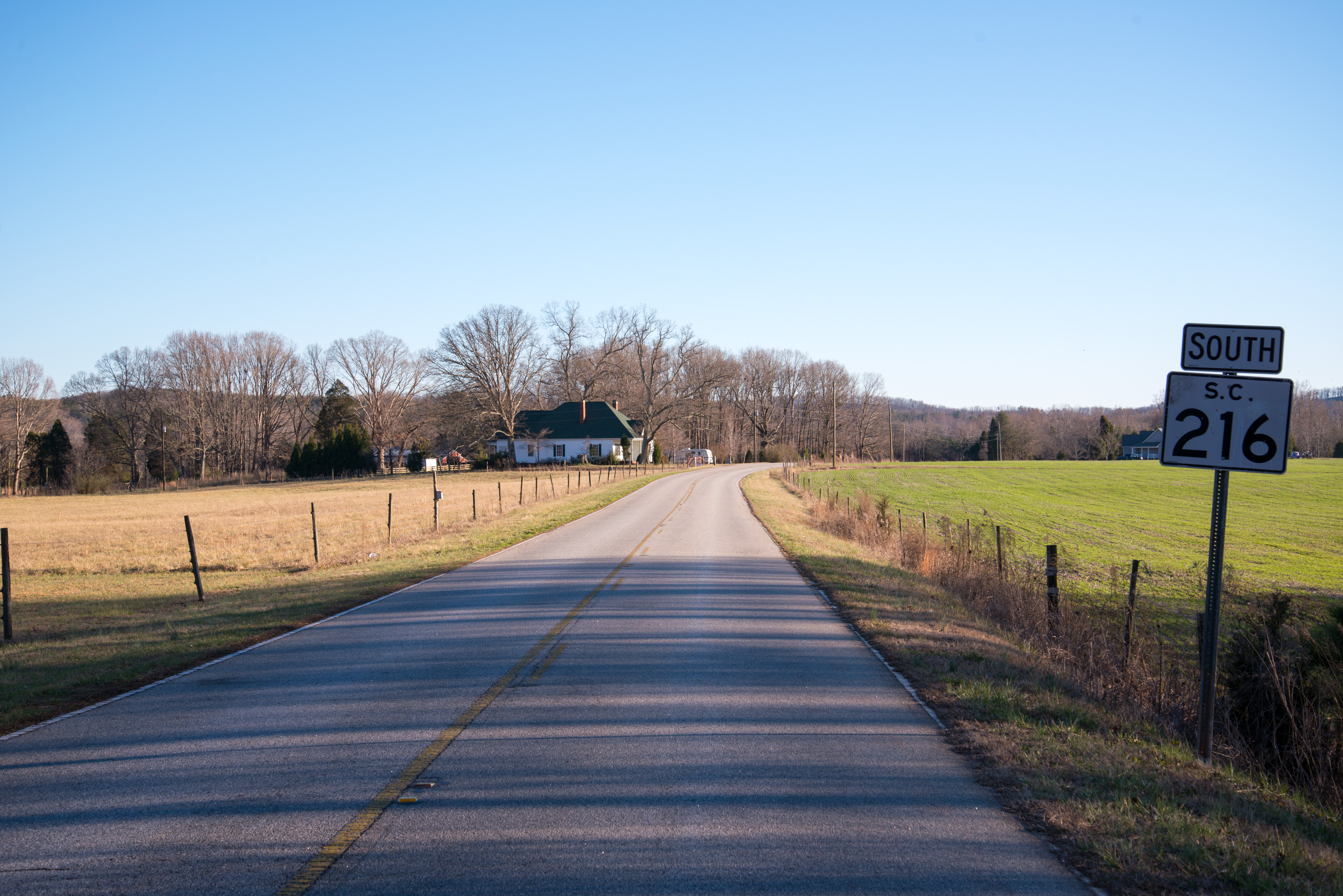 SC 216, at the South Carolina state line, heading towards Kings Mountain National Military Park.